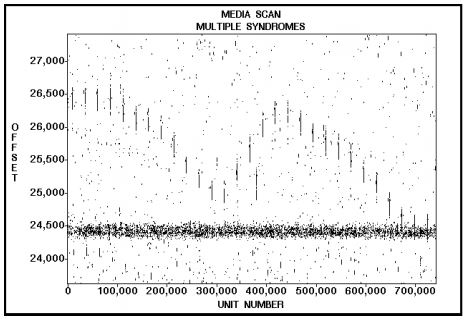 Example of 2D Error Map form of Error Location Analysis technology demonstrating that multiple simultaneous error-producing syndromes can be identified by analyzing the location of errors in a bit stream. This is a picture of the errors on a piece of magnetic tape, where sequential tracks (units) of 38,848 bits are stored perpendicular to the direction of motion.